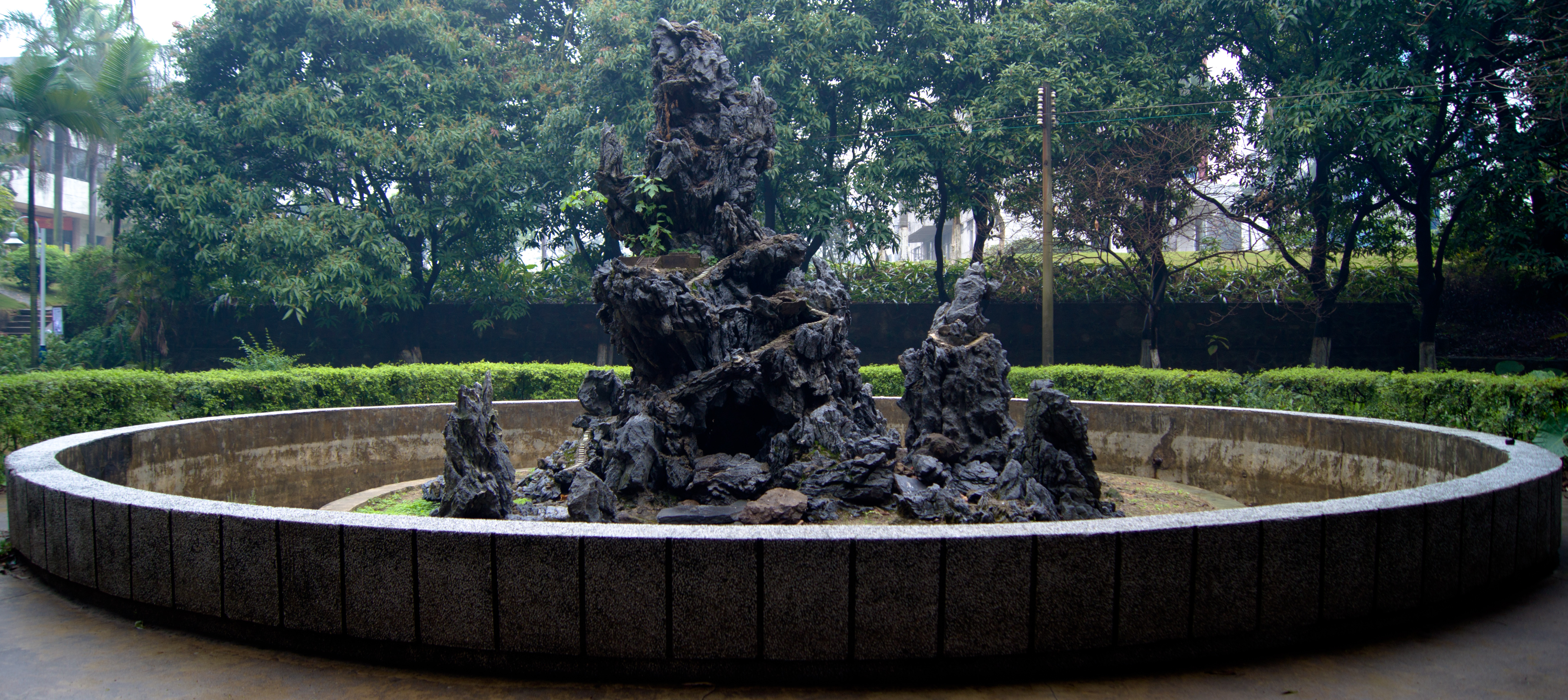 Chinese Rockery in Foshan University (Beiyuan).